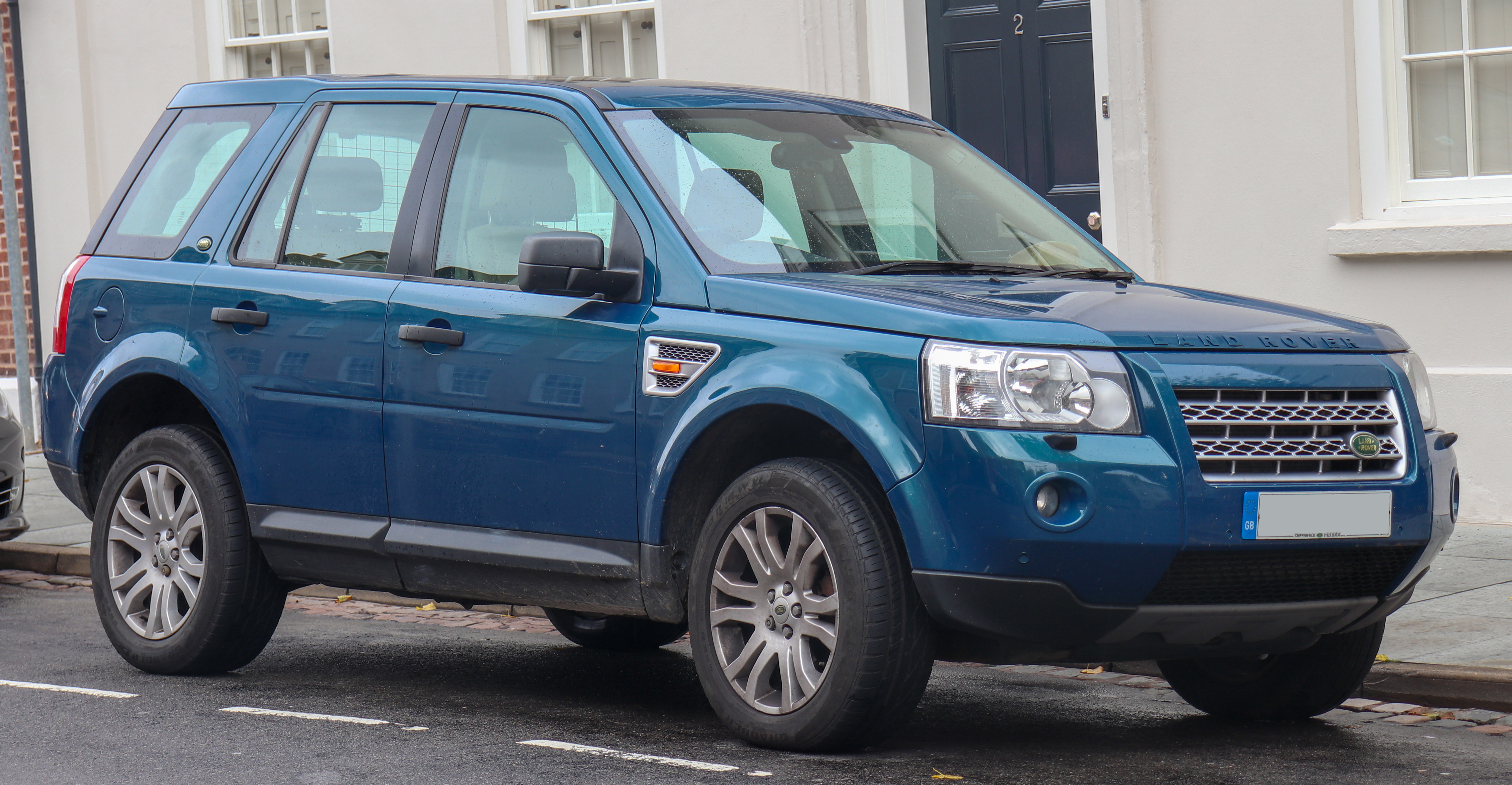 2008 Land Rover Freelander HSE TD4 Automatic 2.2 Front Taken in Warwick